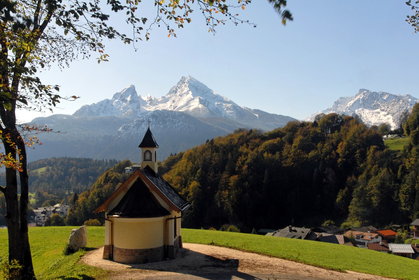 View to mountain Watzmann from Nort-East, (Lockstein above city Berchtesgaden)